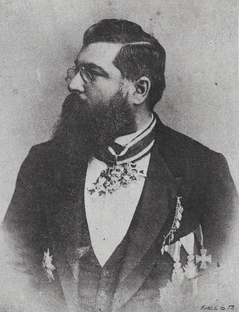 Todor Stefanović Vilovski (1854-1921), Serbian journalist, writer, historian and politician. Taken from the 1899 edition of the calendar Orao. Srpski (latinica): Todor Stefanović Vilovski (1854-1921), srpski novinar, književnik, istoričar i političar. Preuzeto iz izdanja kalendara Orao za 1899. godinu.